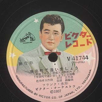 1957 image at vinyl record for release Yūrakuchō de Aimashō / Yumemiru Otome (有楽町で逢いましょう / 夢みる乙女). Fist side: Yūrakuchō de Aimashō featuring Frank Nagai (フランク 永井).